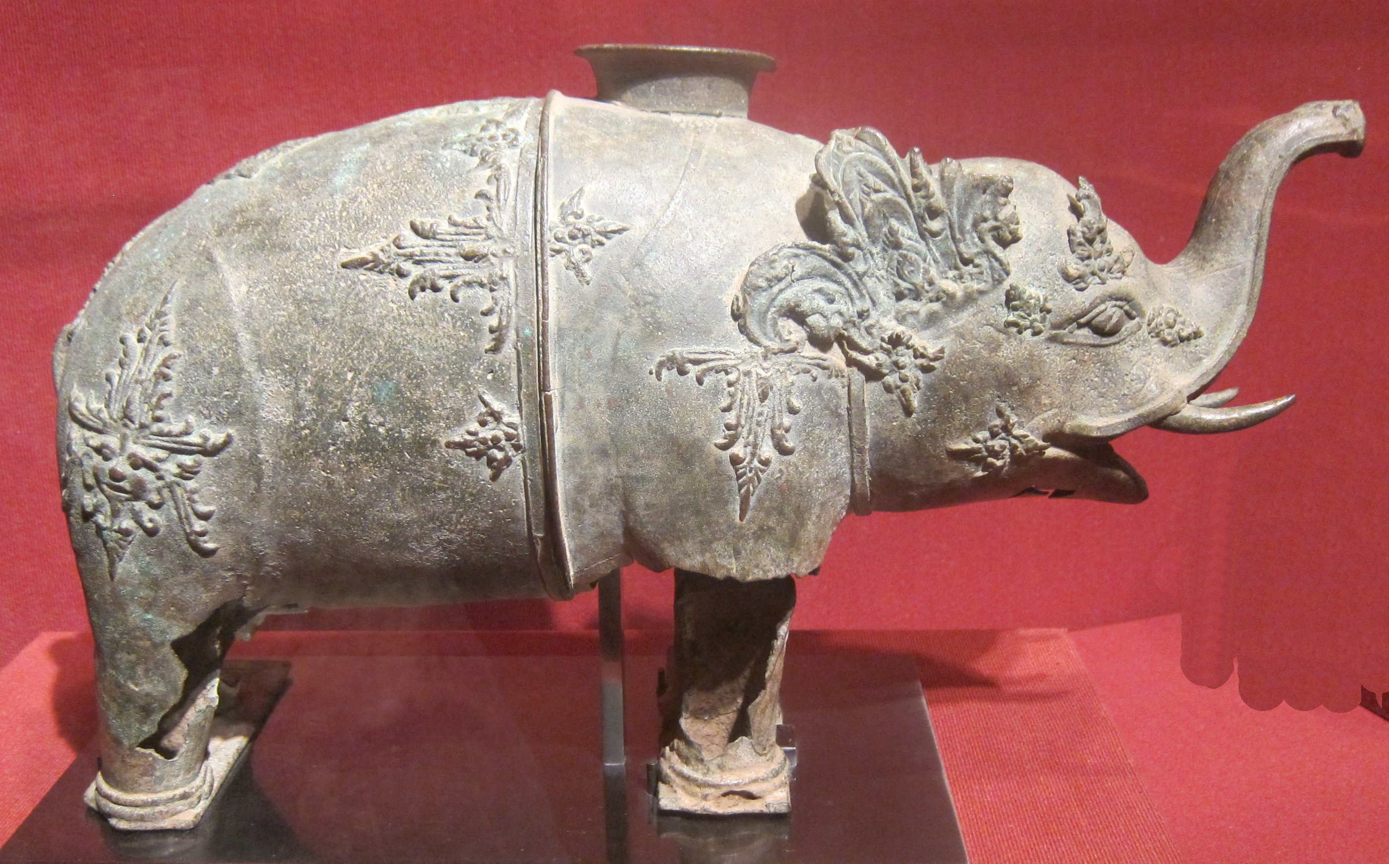 Bronze libation vessel in the form of an elephant, 12th-13th century, Sumatra, Indonesia, Honolulu Museum of Art accession 10623.1